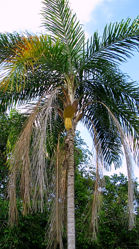 Bactris gasipaes Kunth